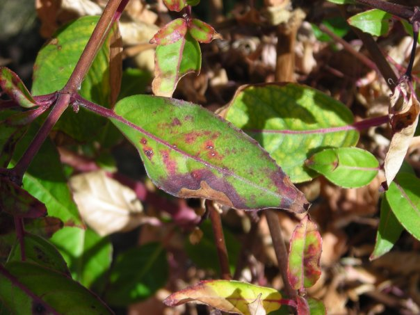 The Impatiens Necrotic Spot Virus on fuschia. Image taken by User:Million Moments